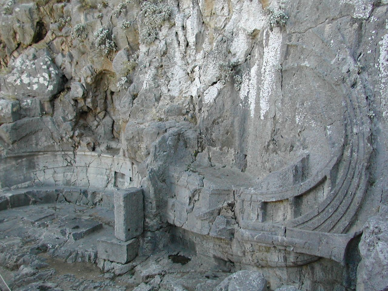 Trireme carved into the walls beneath the acropolis of Lindos.